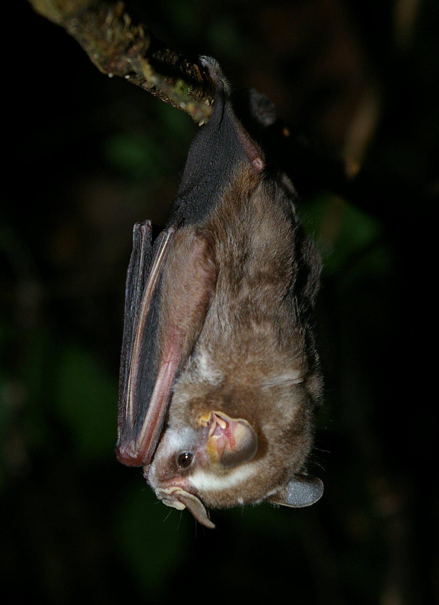 Vampyressa nymphae